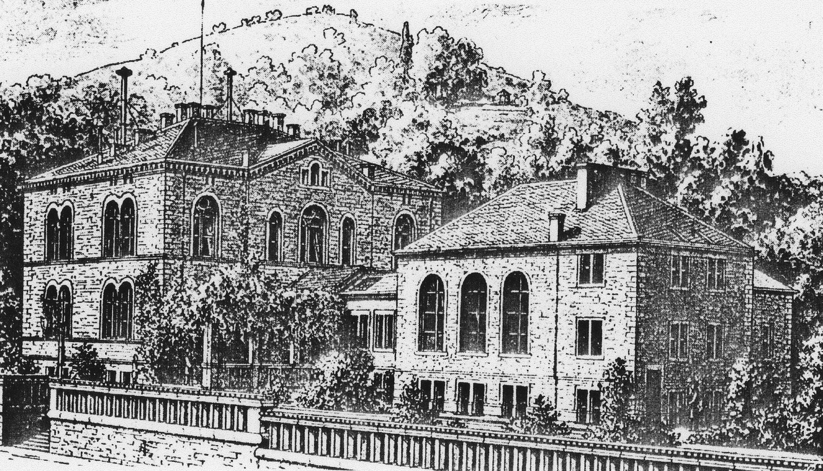 Constantin_Zwenger_Institut at University of Marburg / Germany